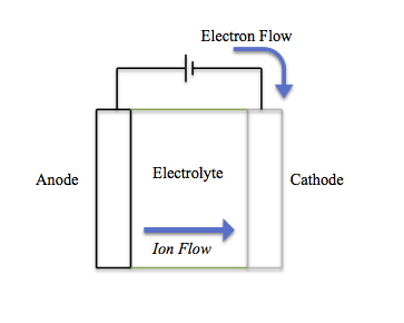 Schematic of a basic lithium ion battery or any ion battery mechanism during charging